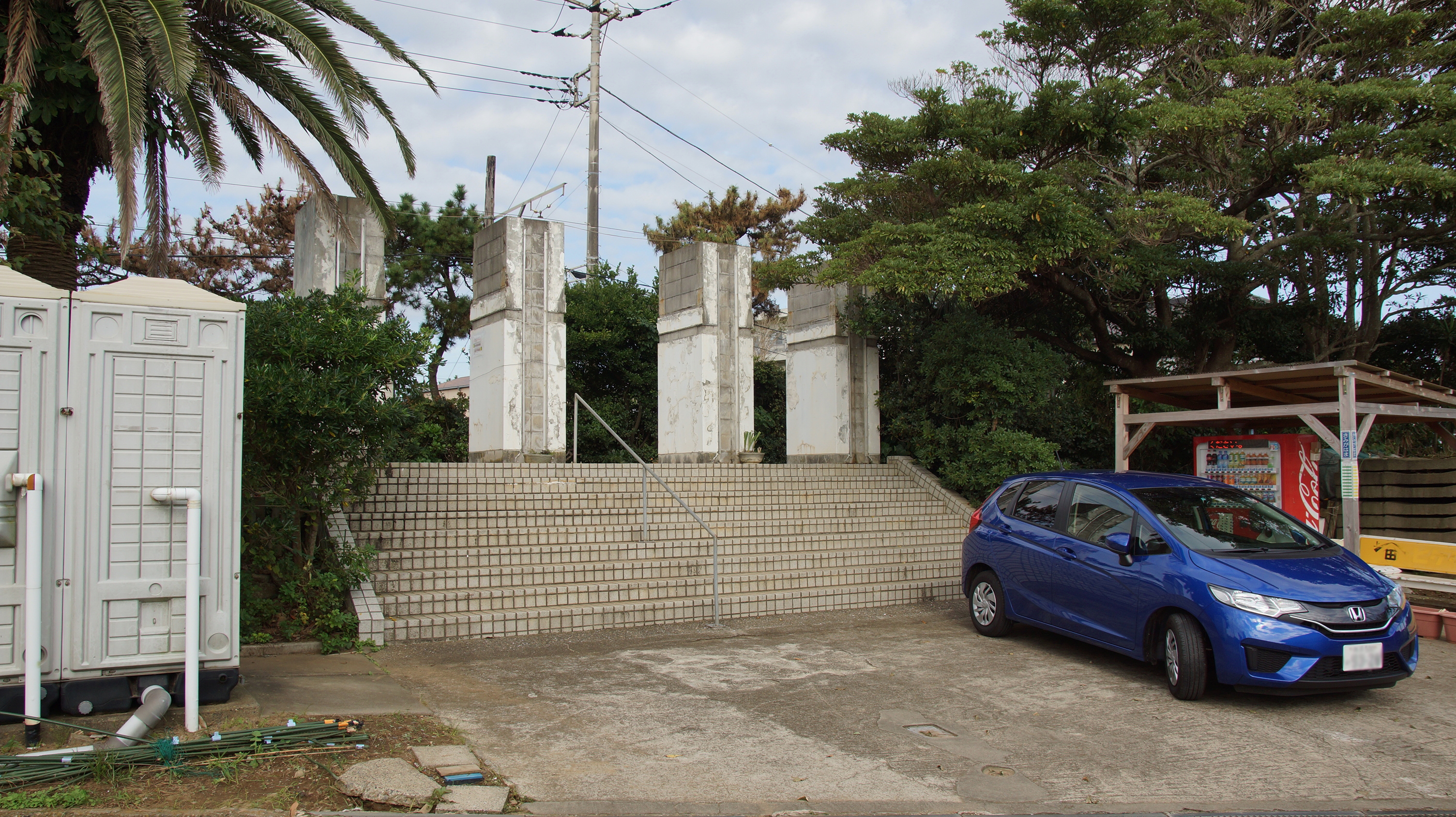 The exterior of Kimigahama Station on the Choshi Electric Railway in Chiba Prefecture, Japan